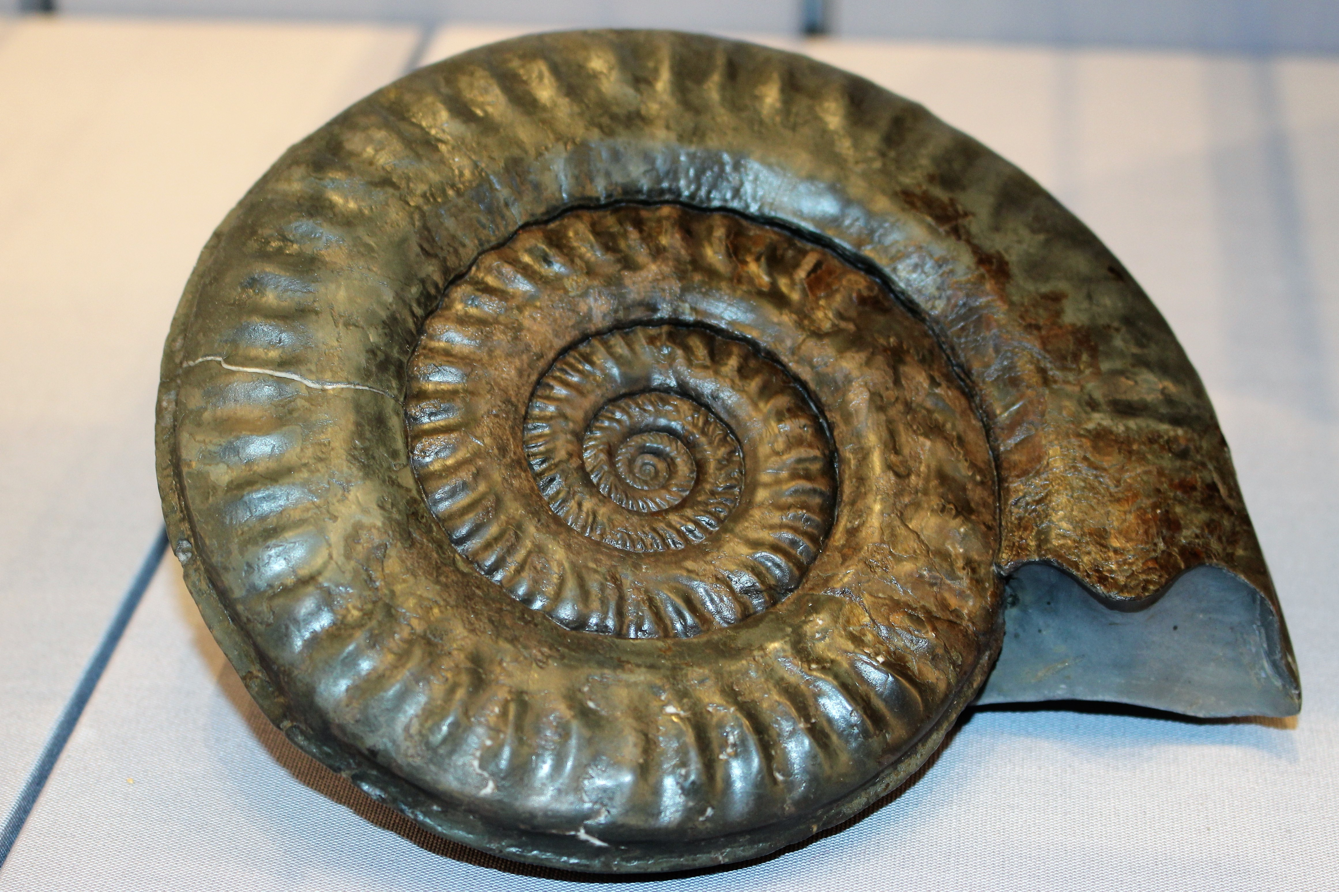 Hildoceras sublevisoni in the Rotunda Museum, Scarborough, England.